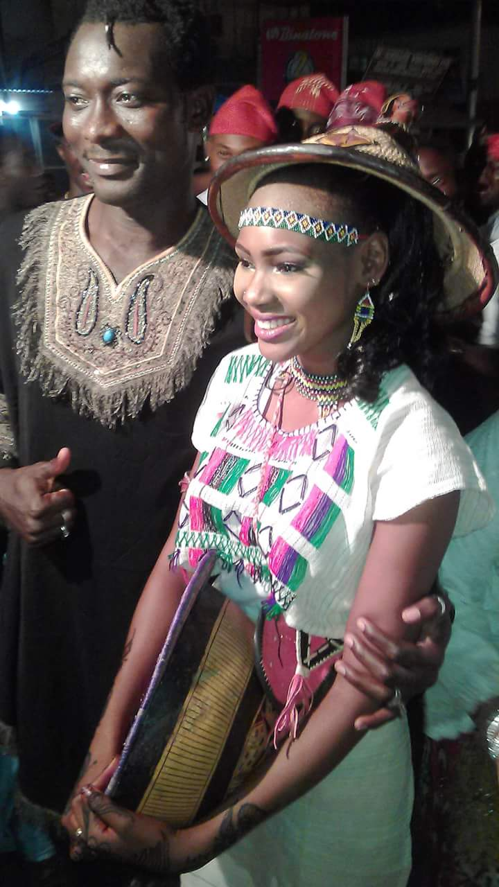 Fulani Wedding This is an image from Ghana